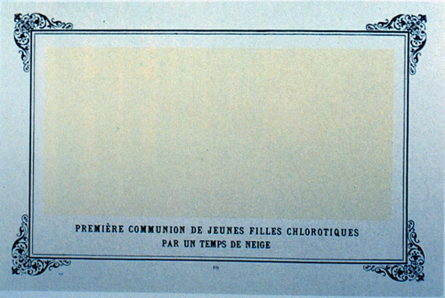 Carre albi (1883) "Première communion de jeunes filles chlorotiques par un temps de neige"